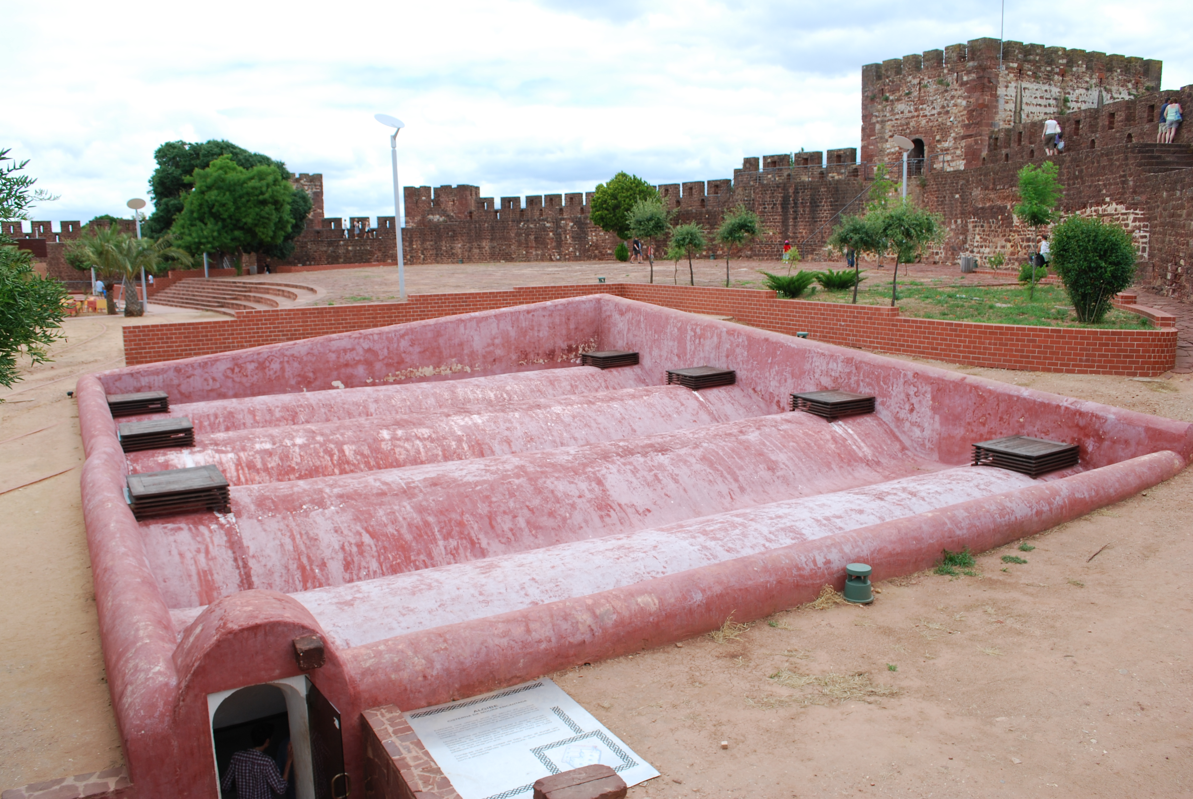 This file was uploaded for Wiki Loves Monuments in Portugal with the unique identifier 70541.